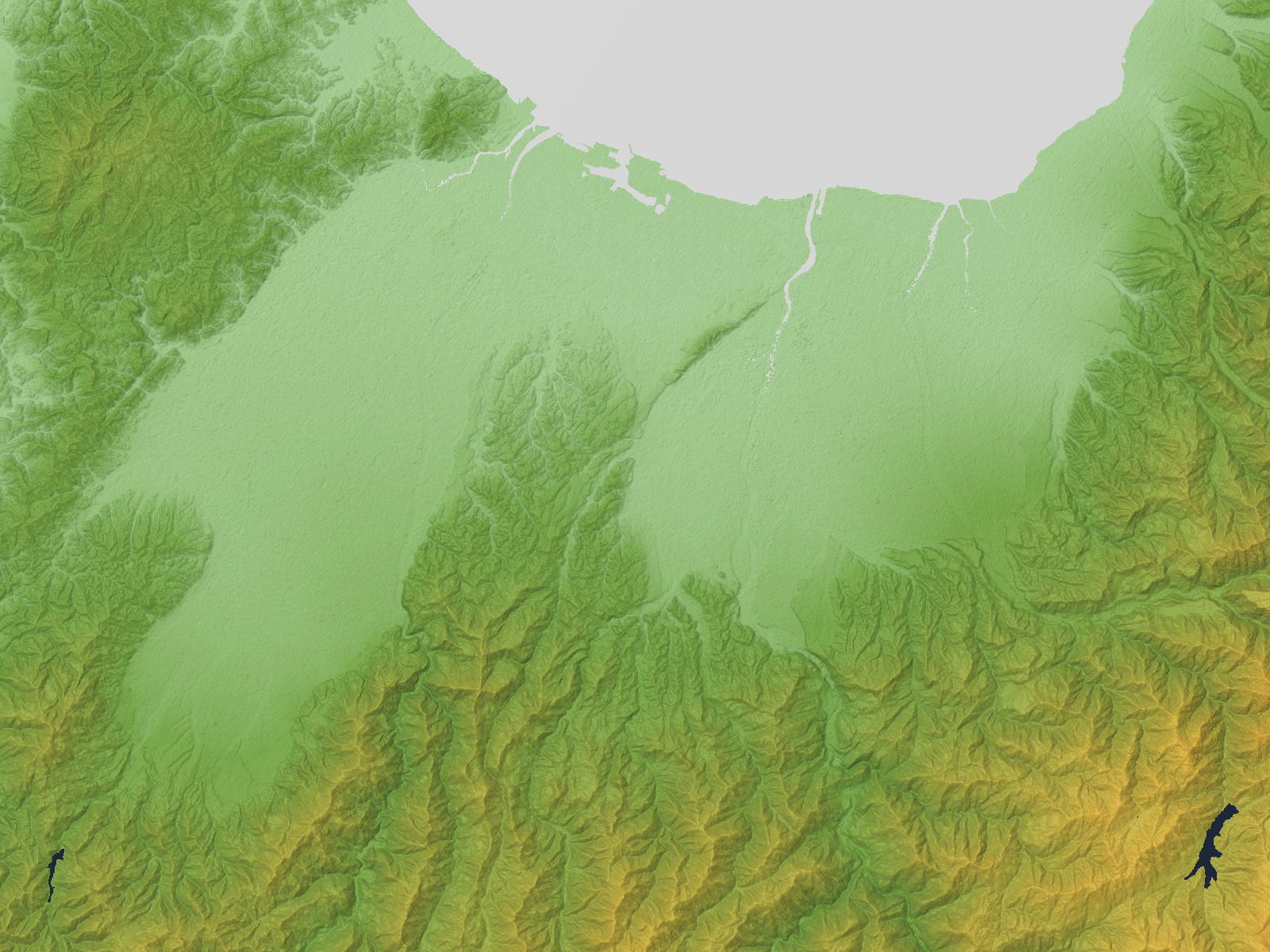 Toyama Basin in Toyama Prefecture, Chūbu region, Honshu, Japan.